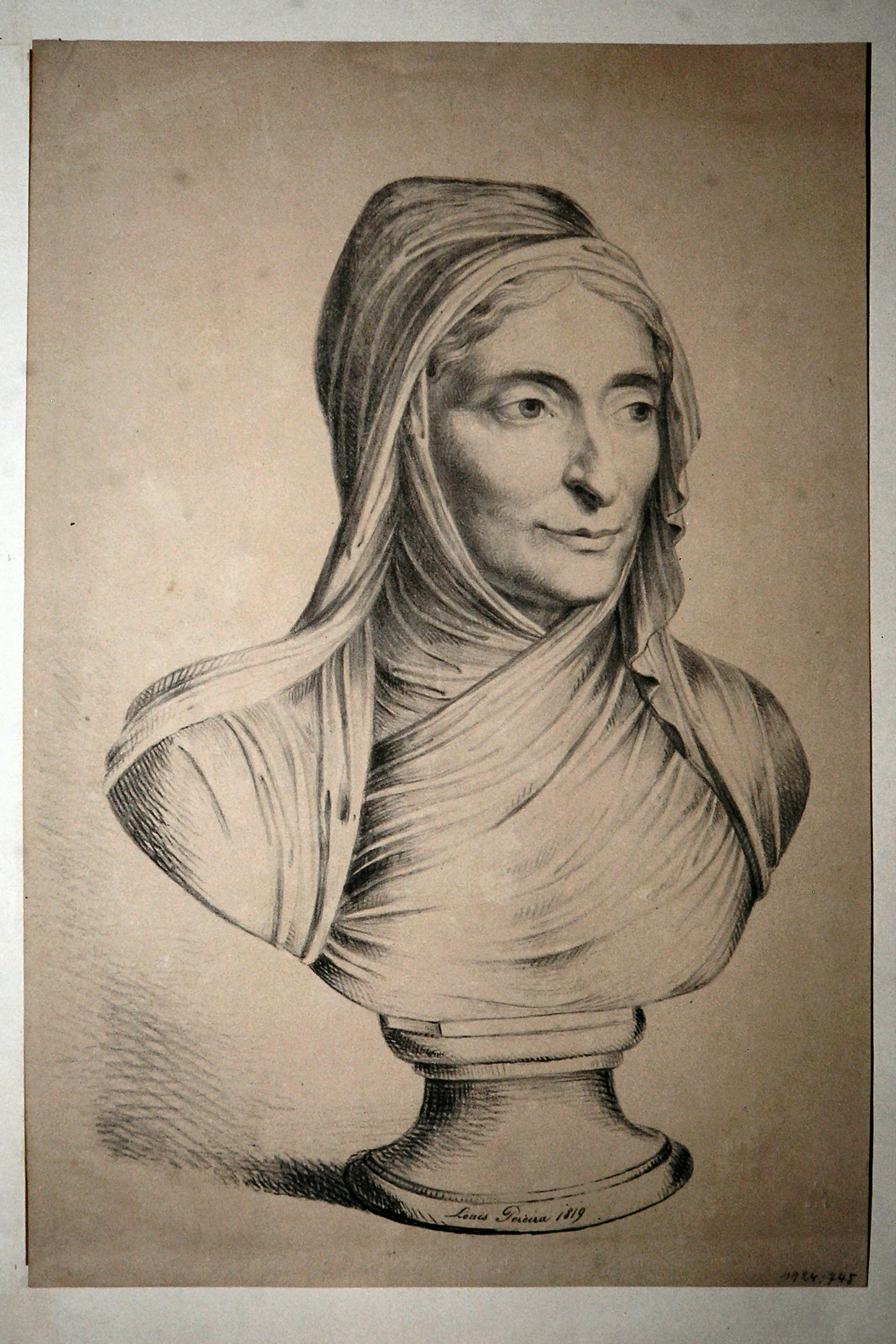 Fanny Arnstein (1758-1818), salonière in Vienna Lithograph by Louis Pereira, 1819